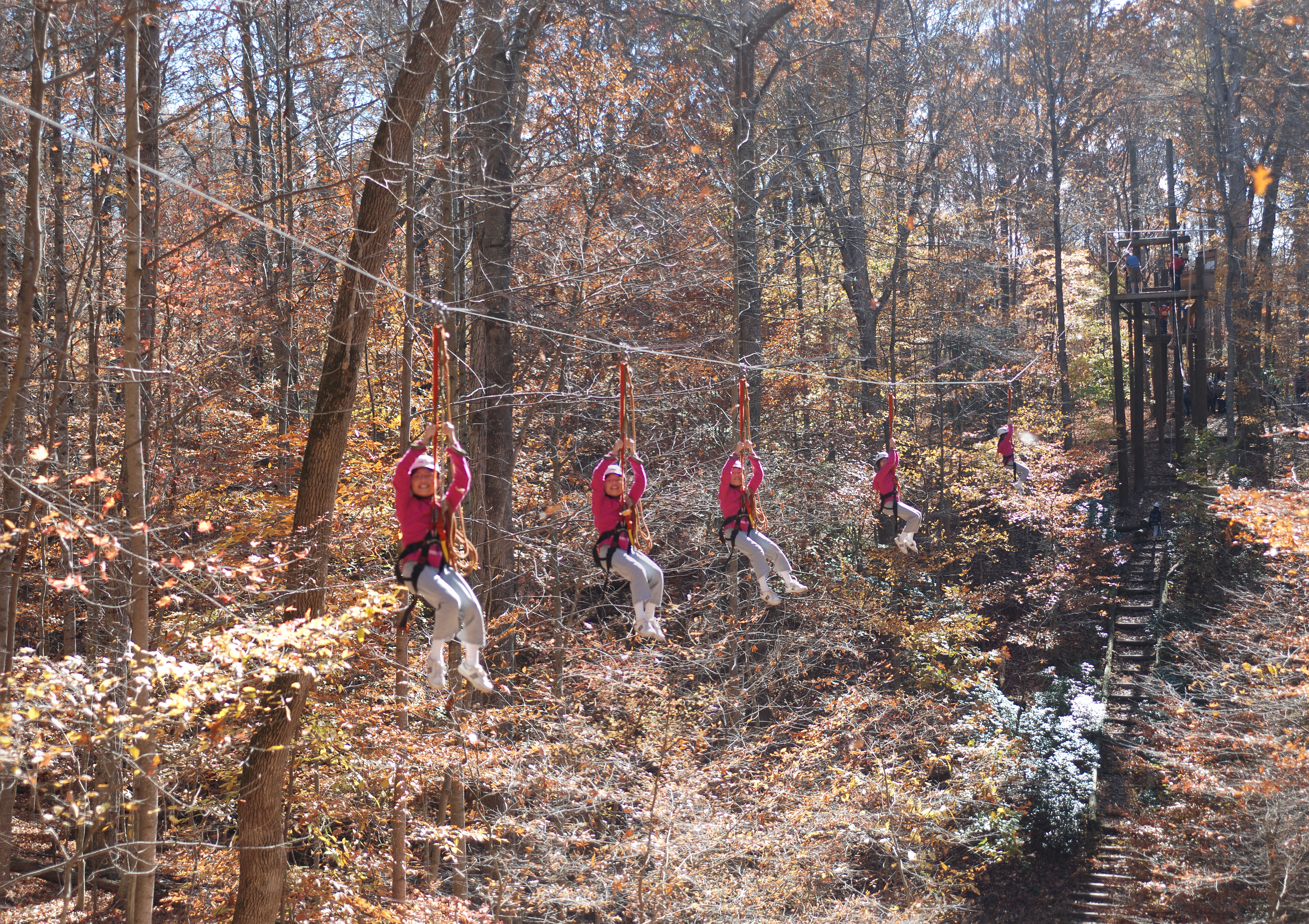 Hemlock Overlook Challenge Course: Zip-line